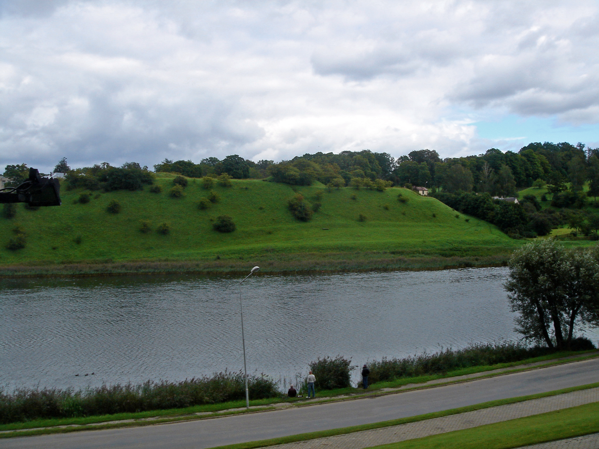 Curonian hillfort in talsi